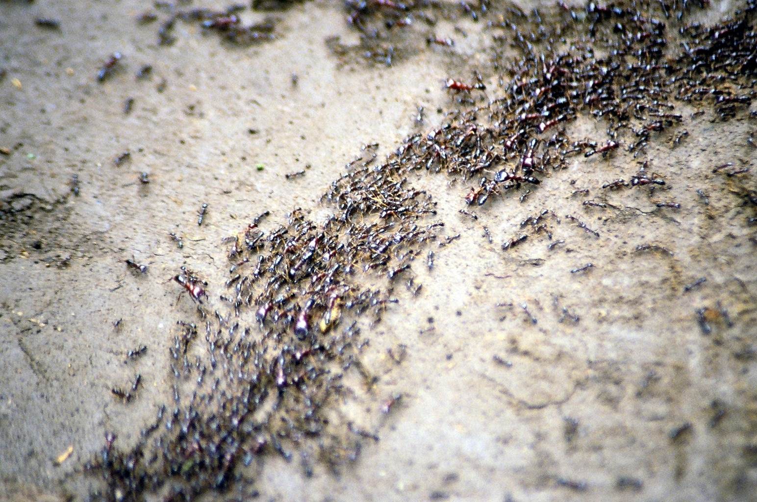 Safari ants (genus Dorylus) have large pincers which the Maasai uses as sutures by having the ant bite the wound and then snapping off the body. This photo was taken on the Chogoria route of Mount Kenya.